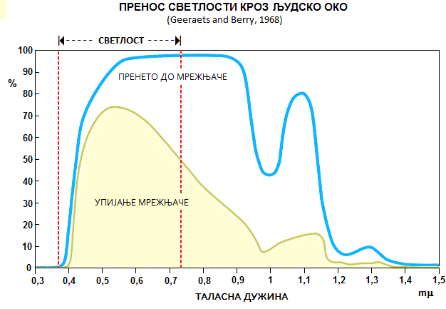 ПРЕНОС СВЕТЛОСТИ КРОЗ ЉУДСКО ОКО И УПИЈАЊЕ У МРЕЖЊАЧИ